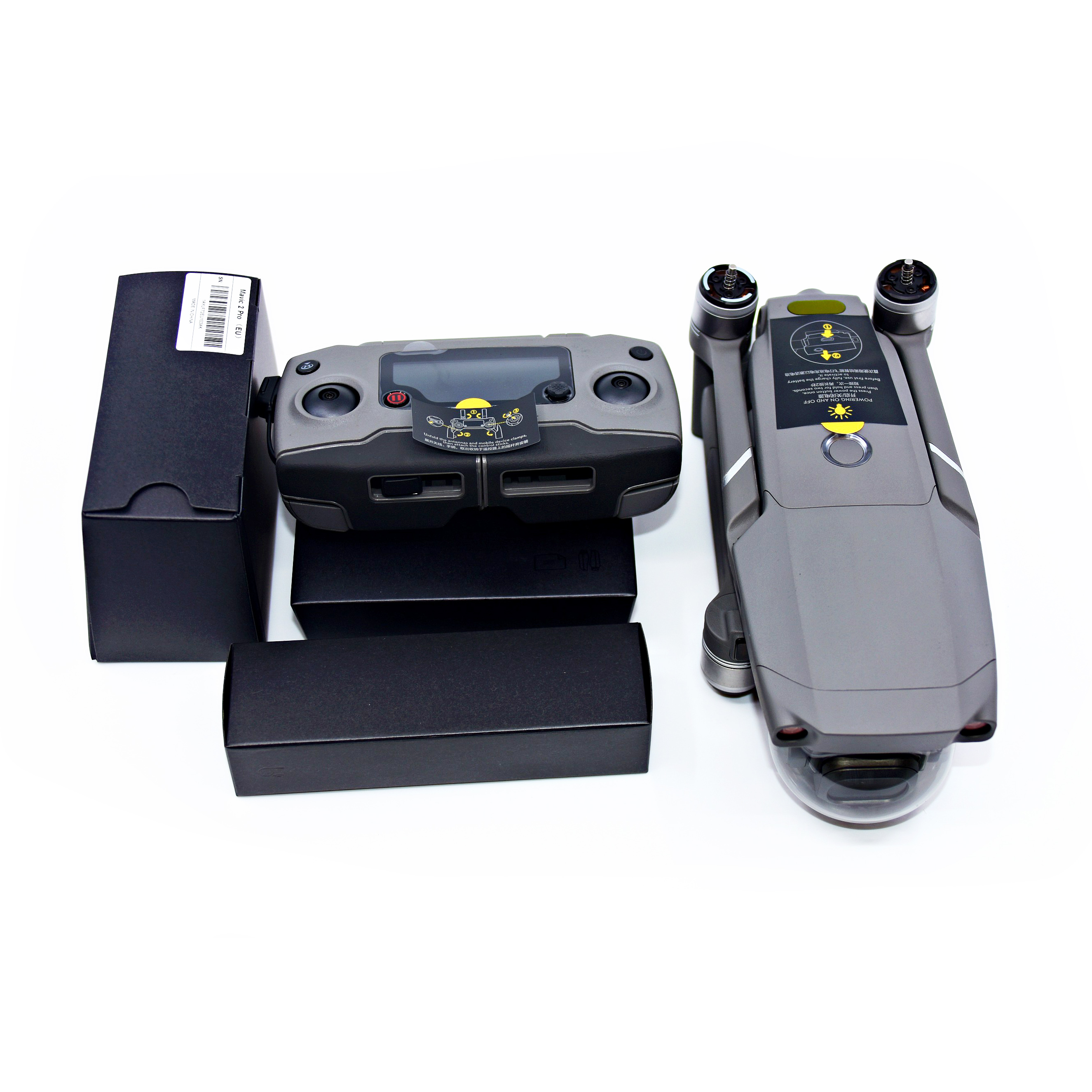 The Mavic 2 Pro from DJI.